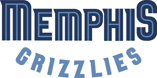 Memphis Grizzlies wordmark logo